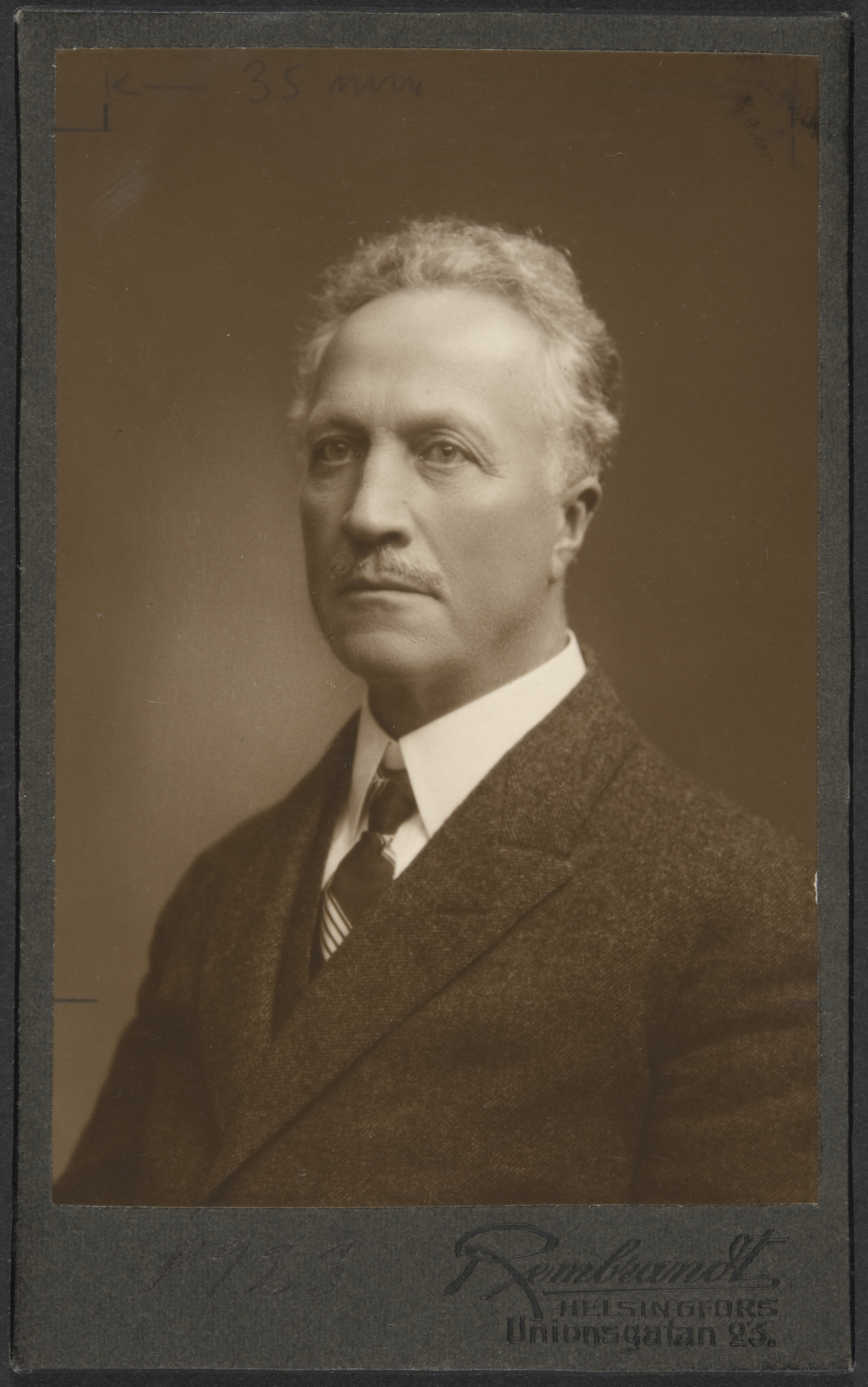 Photograph of the Finnish industrialist Gottfrid Strömberg (1863–1938).